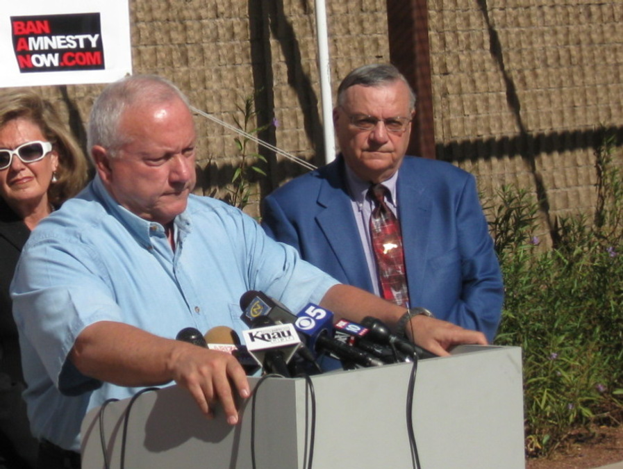 Maricopa County Sheriff Joe Arpaio, standing in the blue suit behind Arizona State Senator Russell Pearce, at a press conference in front of Chase Field a.k.a. Diamondback Stadium.